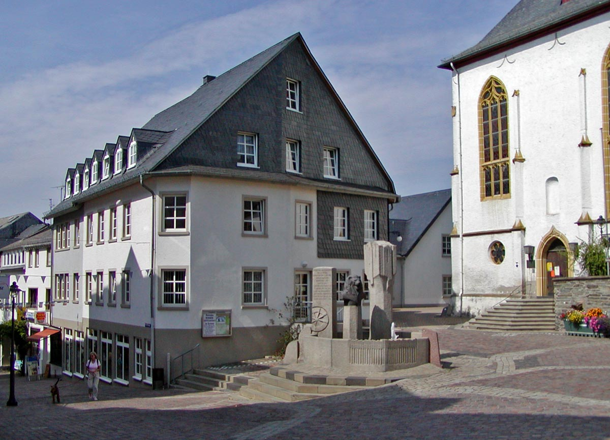 Photo of Simmern square and monument next to the Stephanskirche, Rhineland-Palatinate, Germany